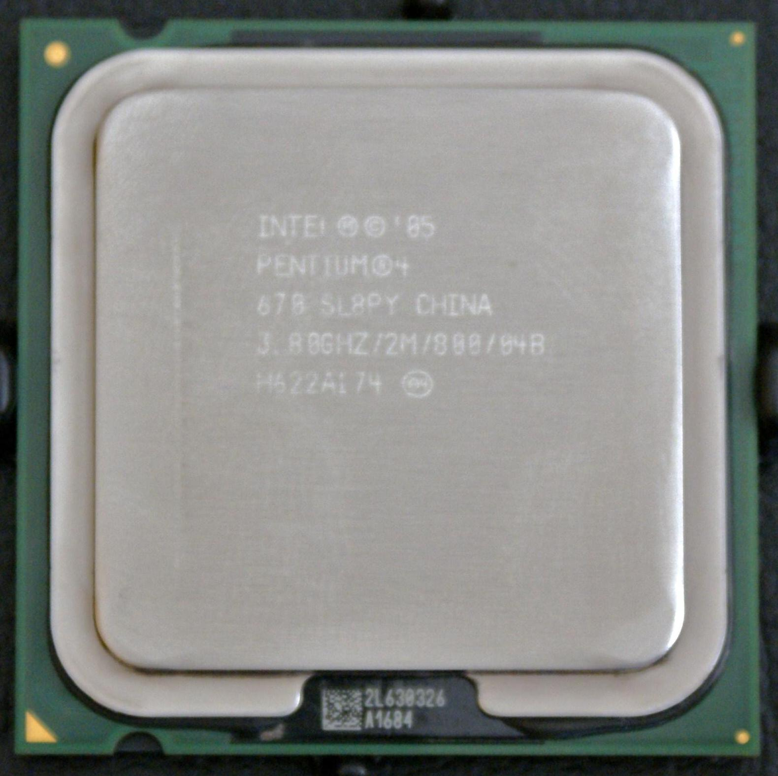 An Intel Pentium 4 670 @ 3.8Ghz with Hyper-Threading Technology (HTT).